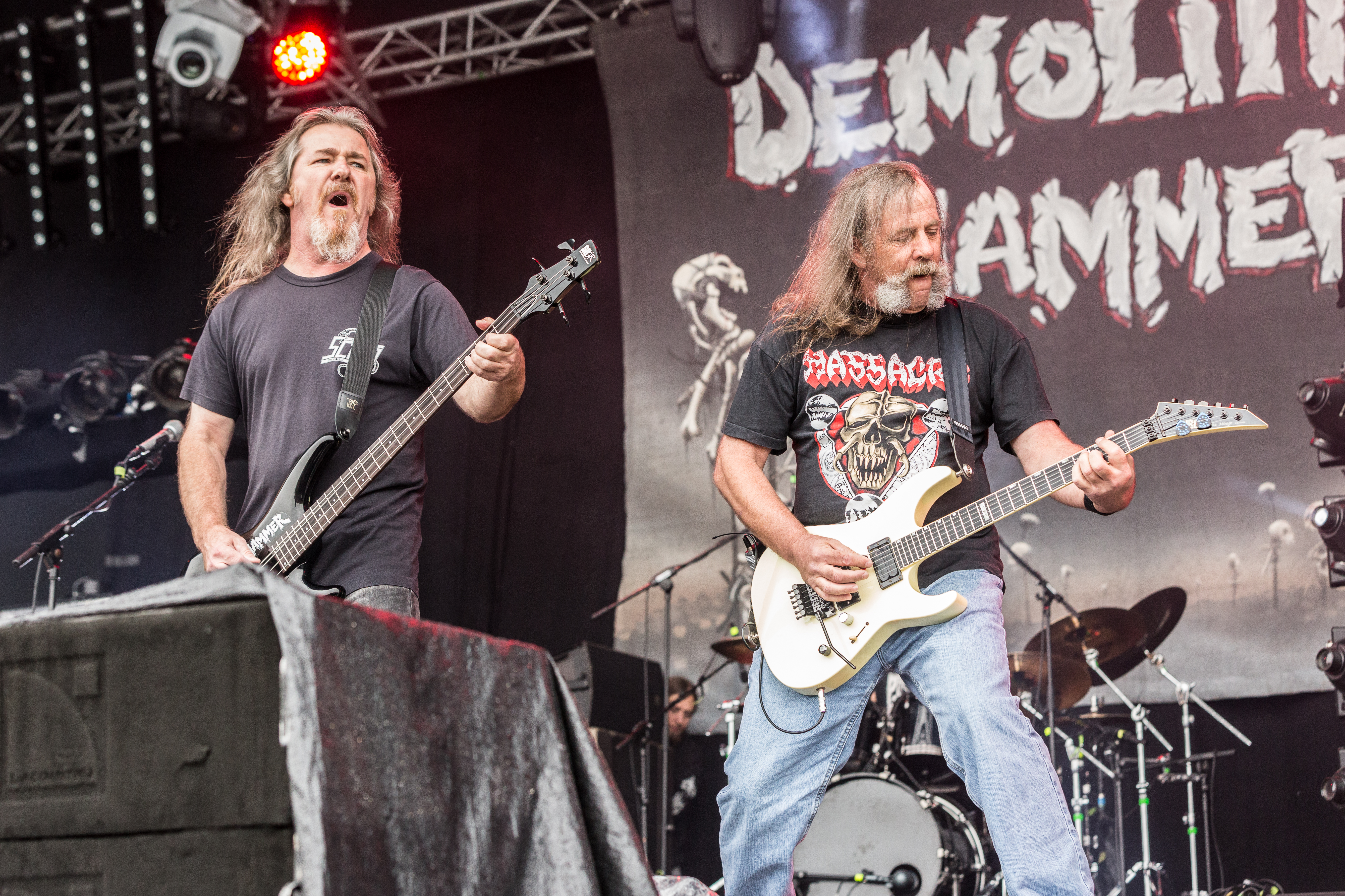 The American thrash metal band Demolition Hammer at the Party.San Metal Open Air 2017 in Obermehler-Schlotheim/Germany.